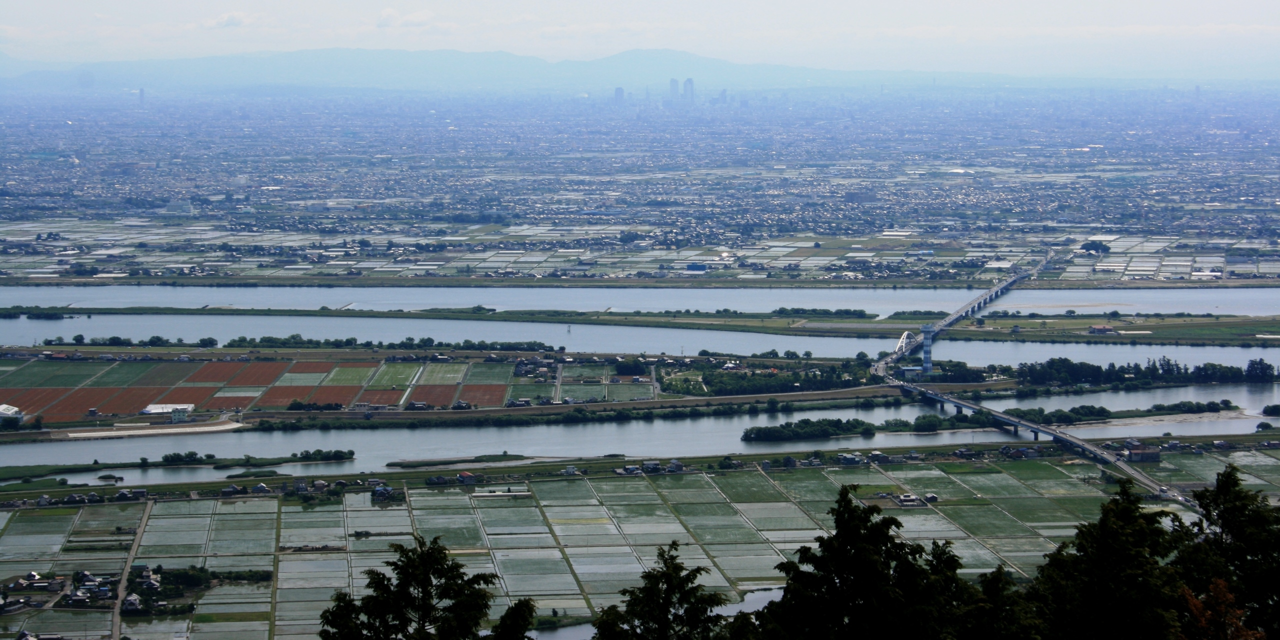 Kiso Three Rivers and Nōbi Plain from Mount Tado